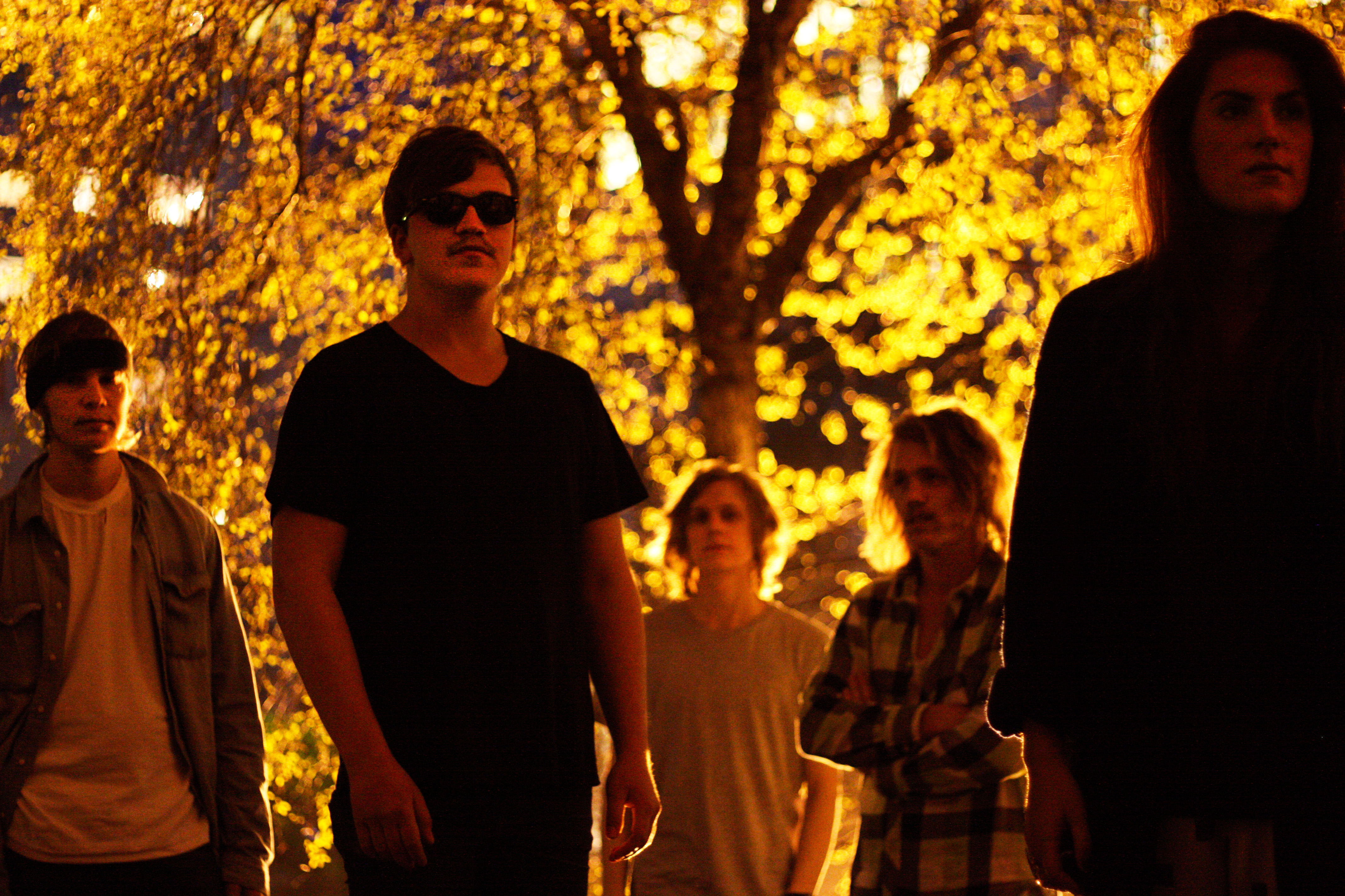 Picture of the members in the norwegian indiegroup Dråpe (literally: drop).